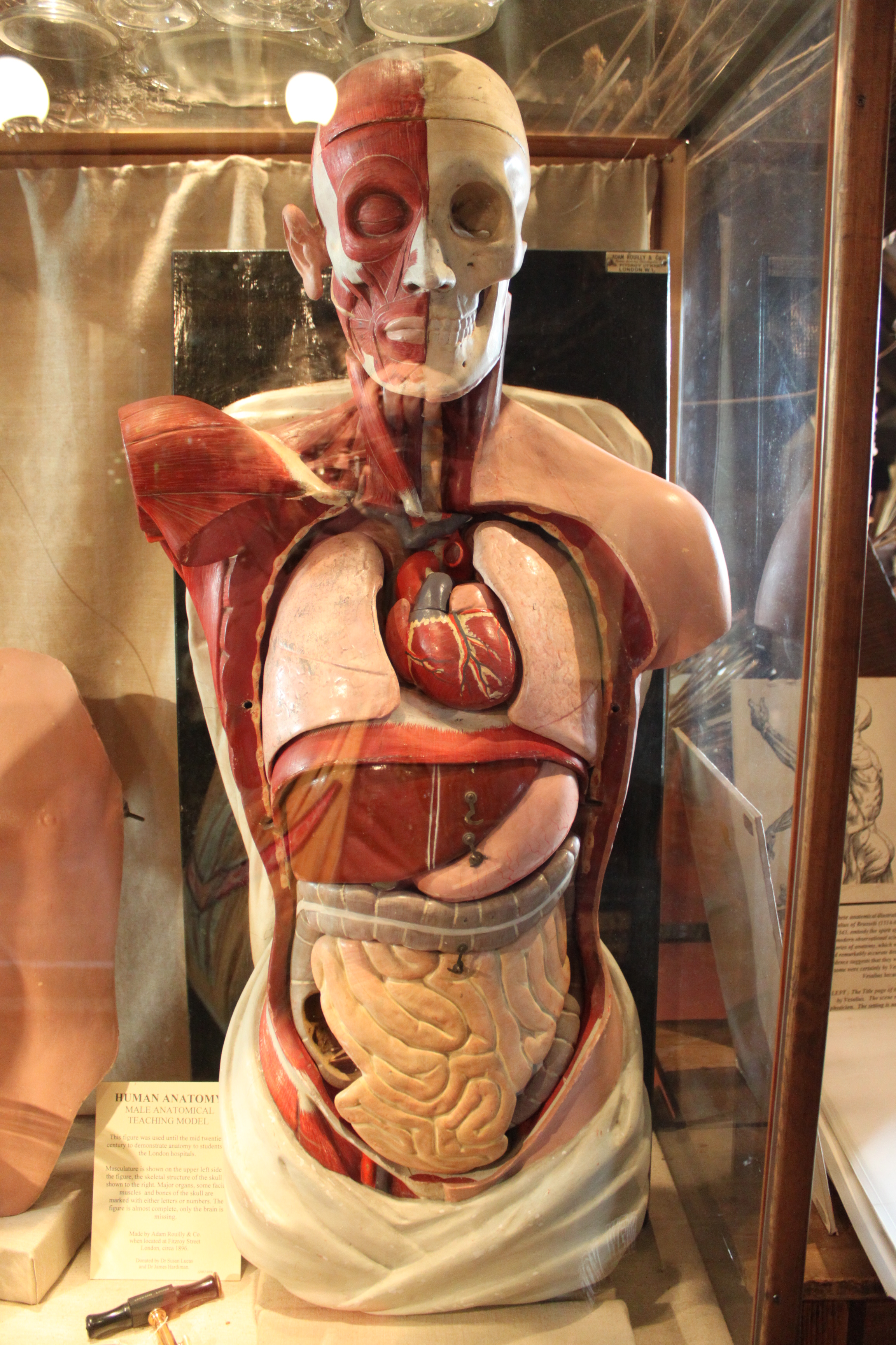 Male teaching model This photo was taken as part of Britain Loves Wikipedia in February 2010 by Jenny O'Donnell.